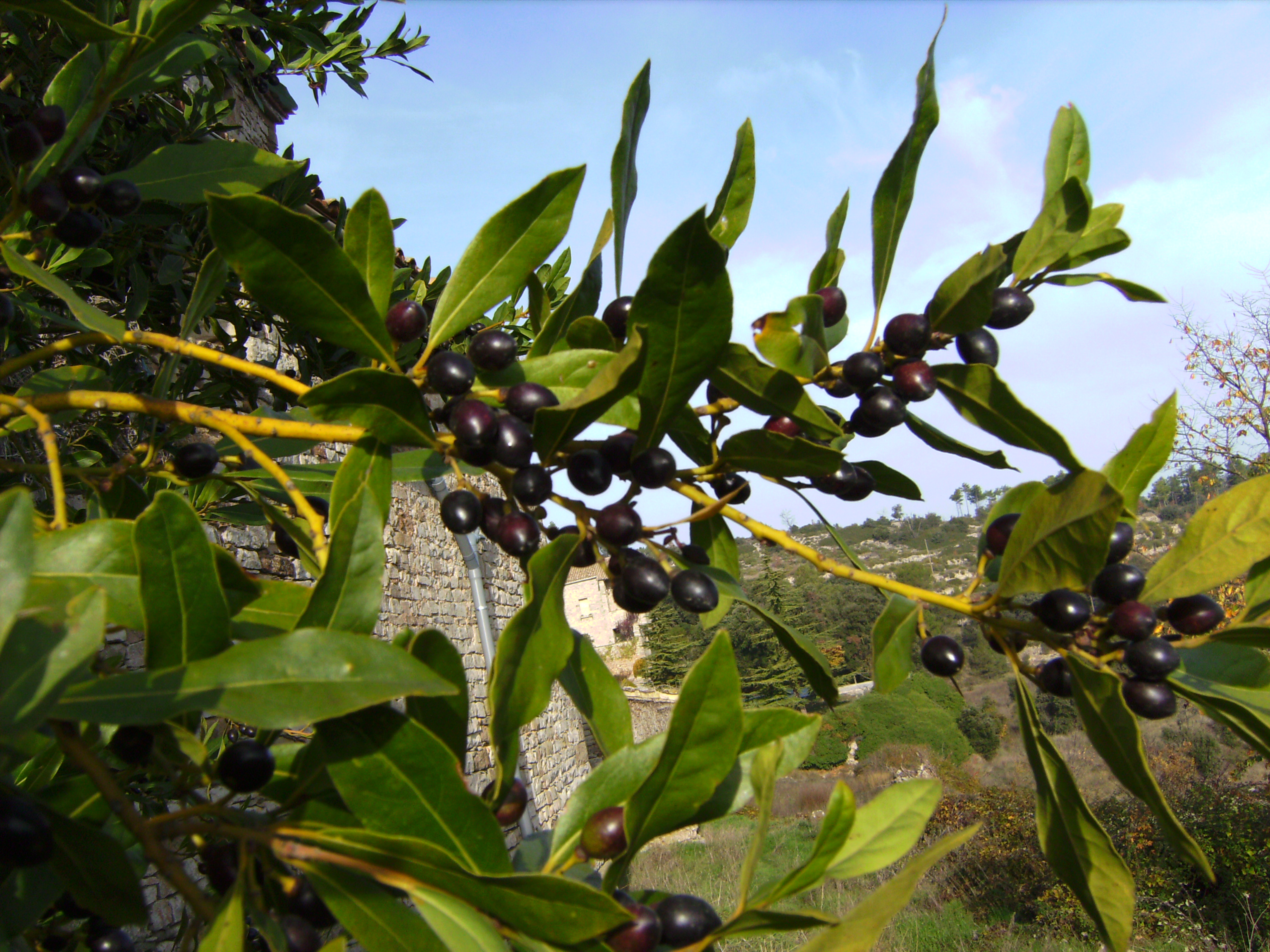 Laurus nobilis fruits (Catalonia)